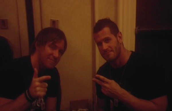 A picture of Chris Sabin and Alex Shelly at a TNA Fan Fest that I took in Cleveland Ohio.